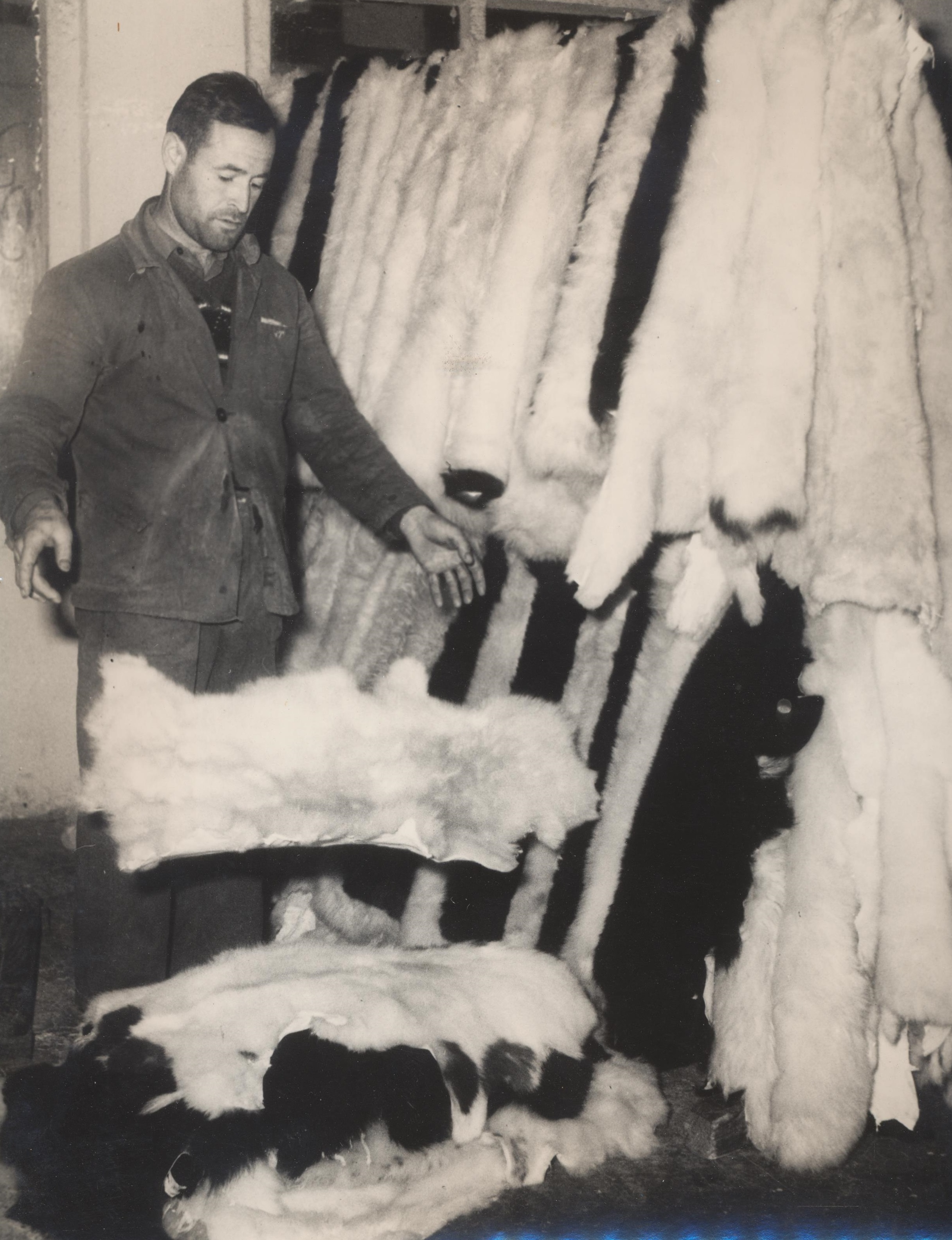 Finished products of fur in 1963. company Dragos in Pirot